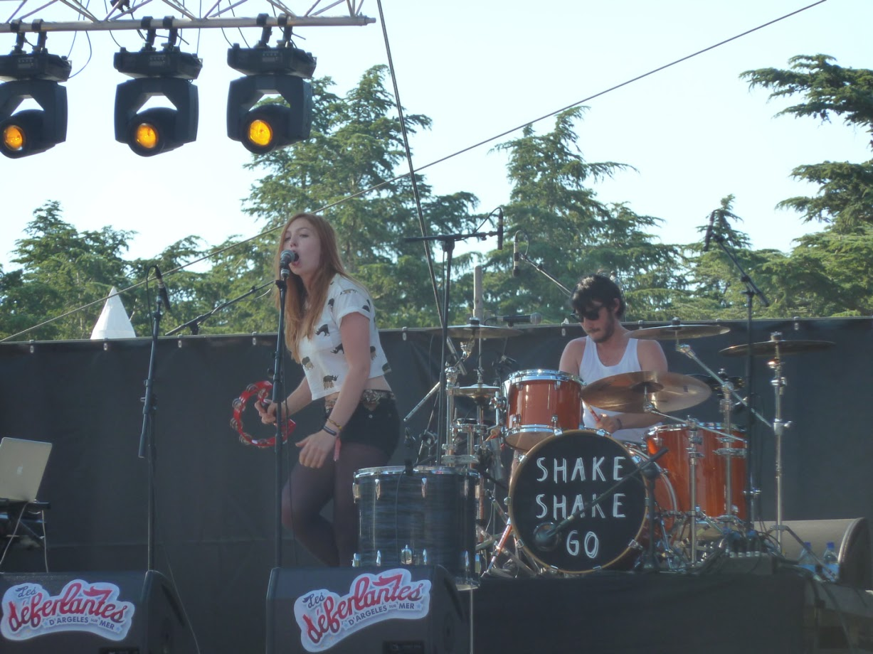 Shake Shake Go - Déferlantes d'Argelès-sur-Mer 2013